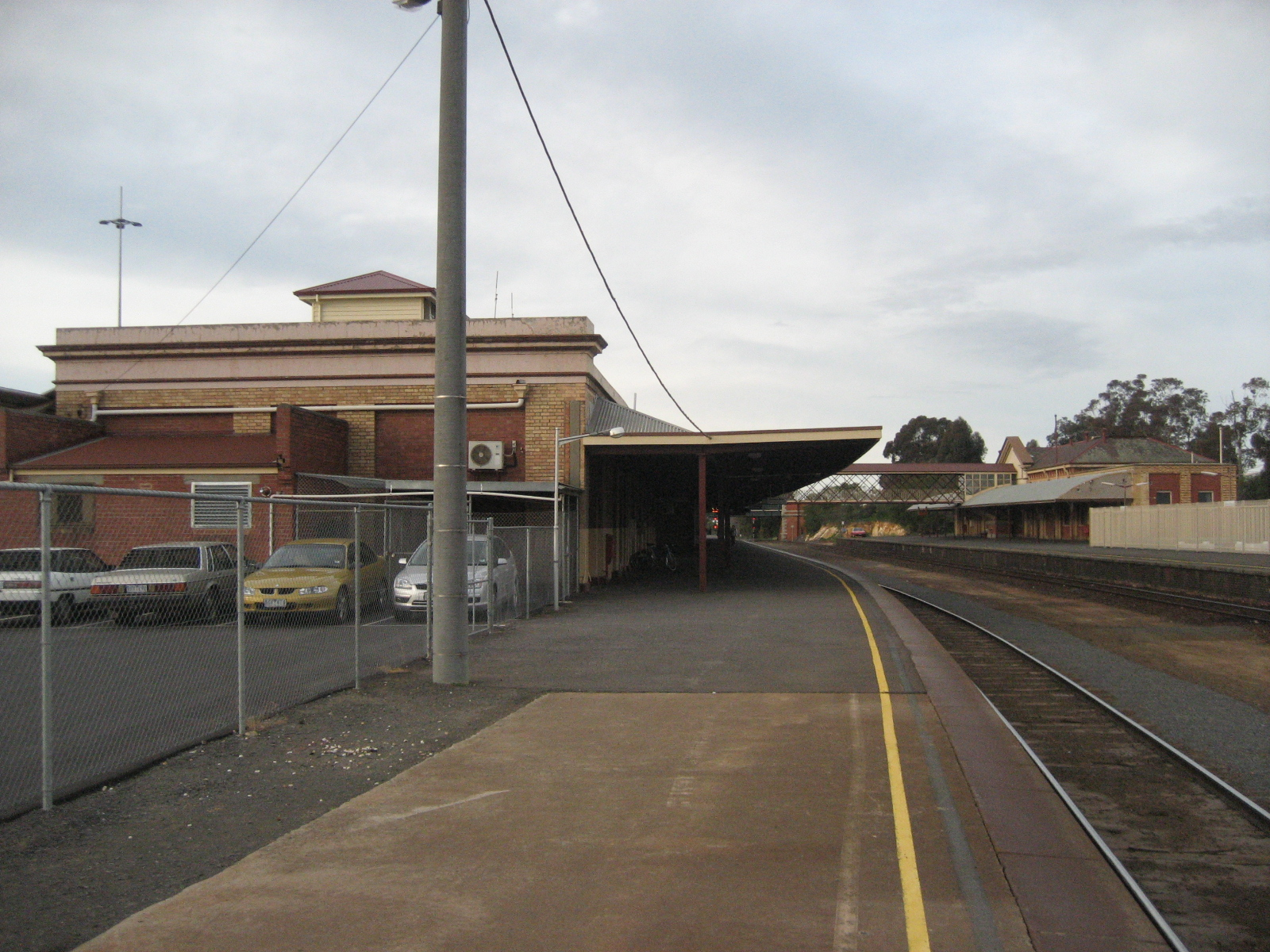 View of Bendigo station.